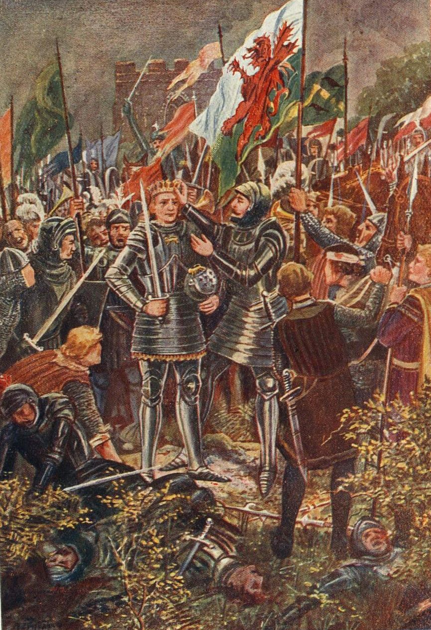 Illustrations and photographs of places and events in Welsh history from a childrens book called 'Flame Bearers of Welsh History'